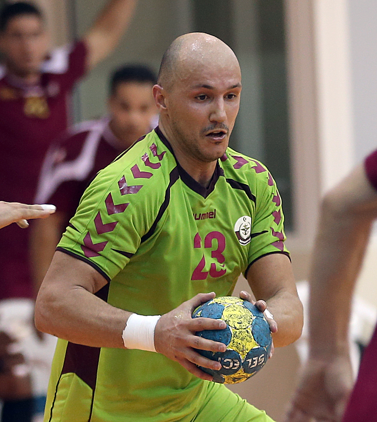 El Quiyada's Montenegrin professional handball player Zoran Roganovic in action during a Qatar League match. Picture by Mohan